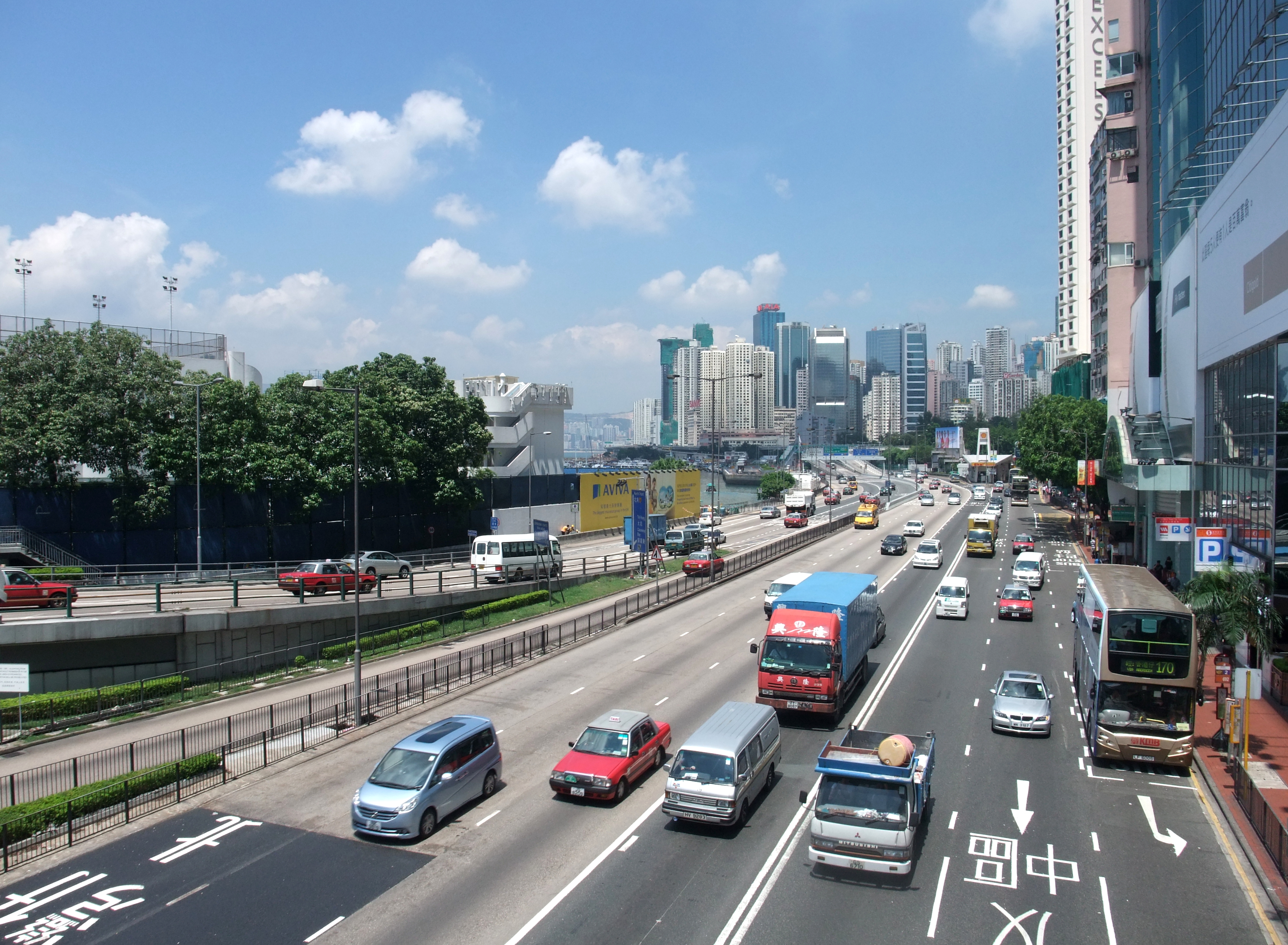 Photo of Gloucester Road, Hong Kong